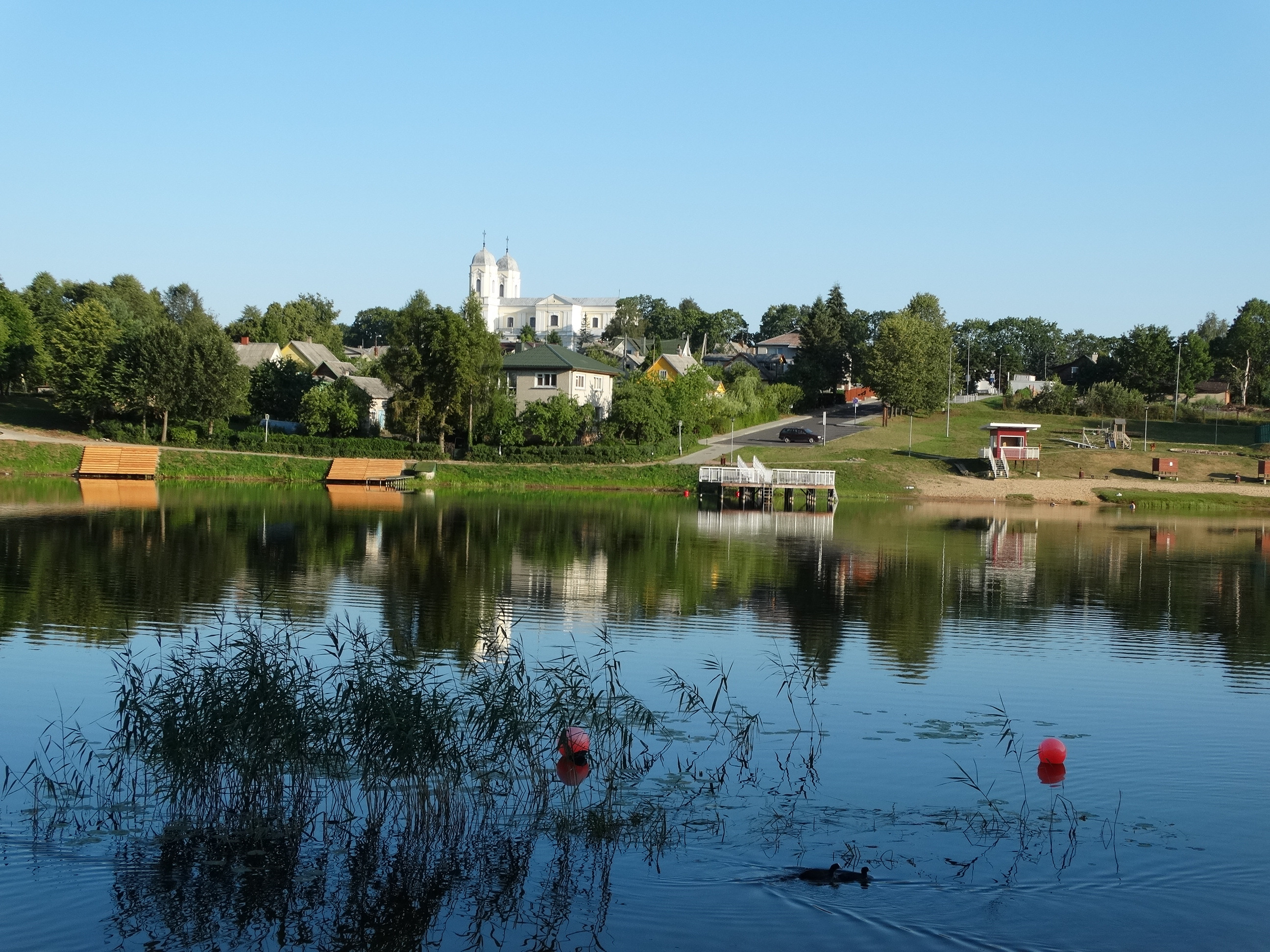 Pond, Molėtai, Lithuania